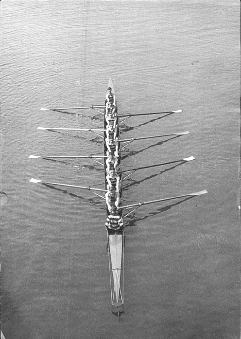 An aerial view of the Argonauts Rowing Club Junior eight-man boat, Toronto, Canada